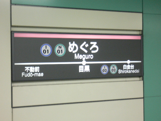 Station-Sign /Numberring of the station Meguro (Line I [Mita Line] and N [Namboku Line] and Tokyu Meguro Line)